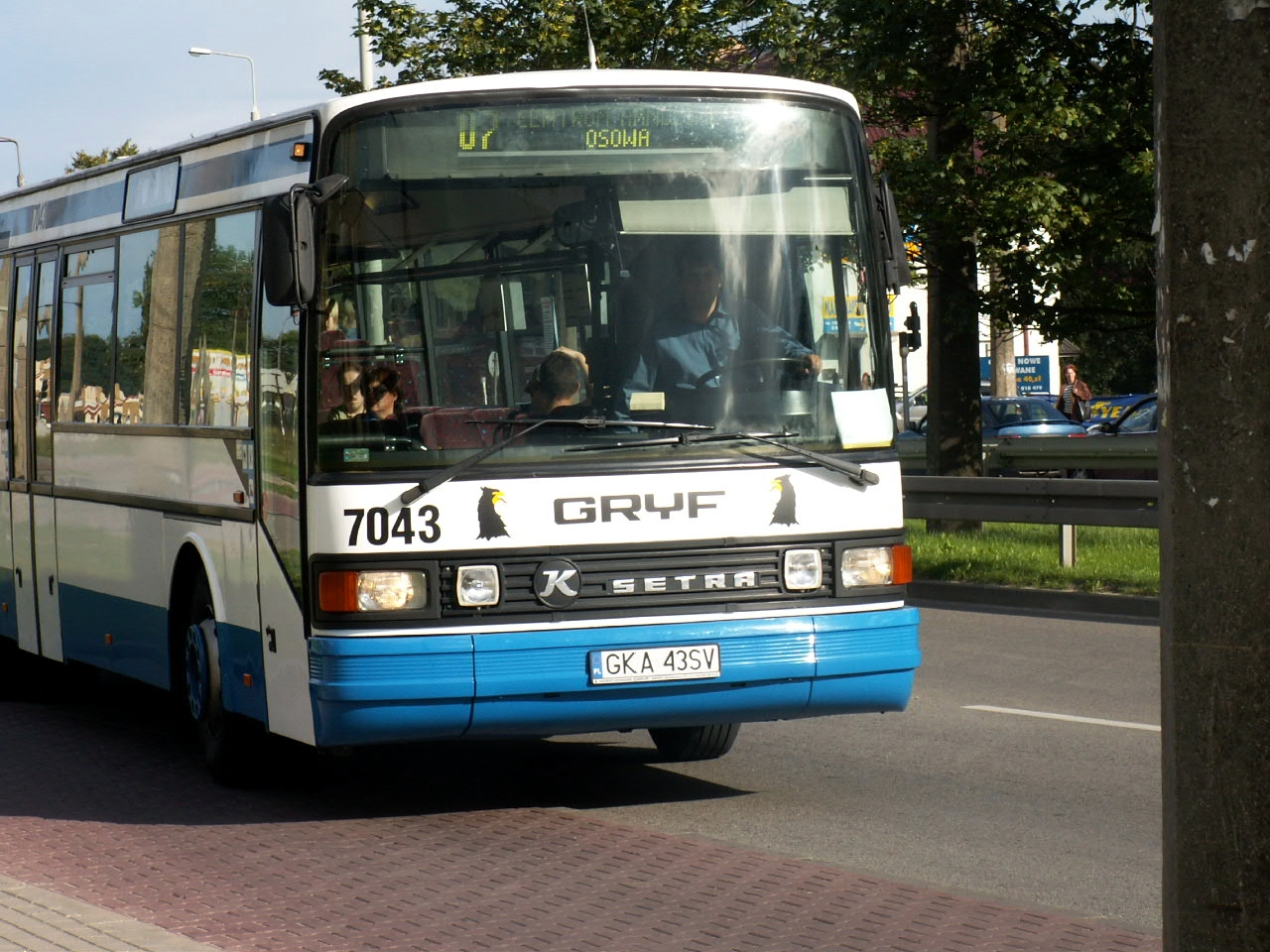 Setra S215 NR bus (#7043) in Gdynia, Poland. Built 1994, Gryf Kartuzy operator.